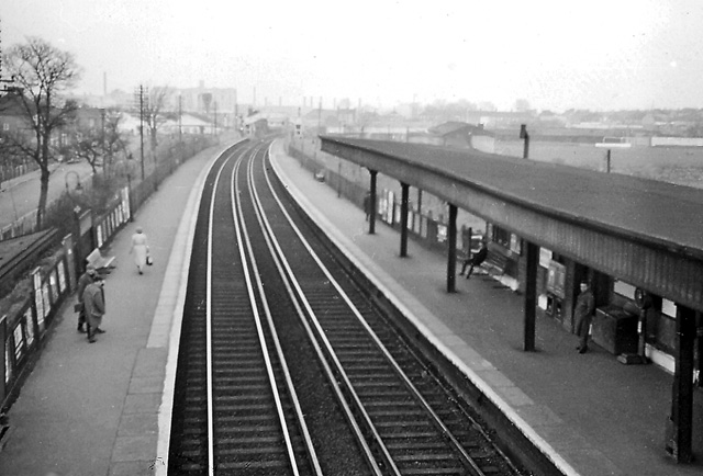 Belvedere Station. View eastward, towards Dartford; London - Woolwich - Dartford - Gravesend etc. (North Kent) line